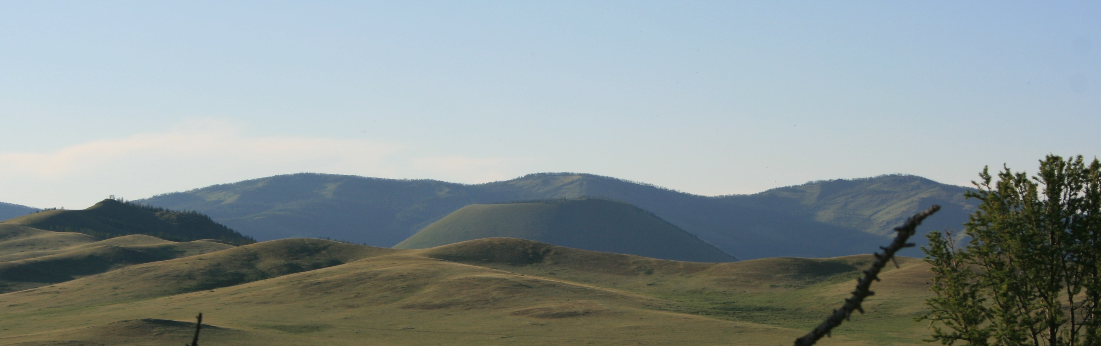 Uran Togoo, an old volcano crater. View from Tulga Togoo, Bulgan aimag, Mongolia